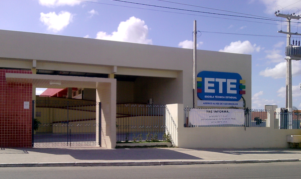 Goiana Downtown